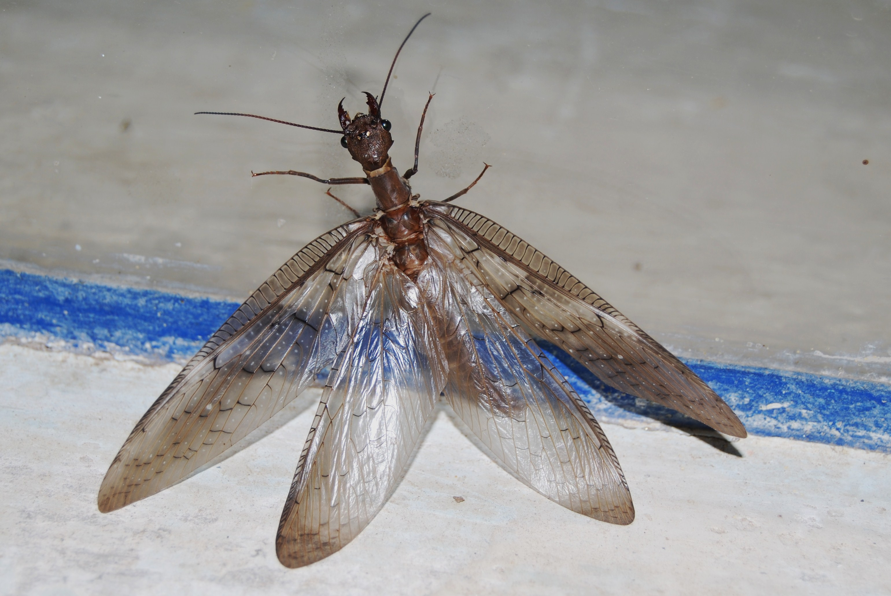 Corydalus sp. Female. San Miguel de Acos, Lima, Peru.